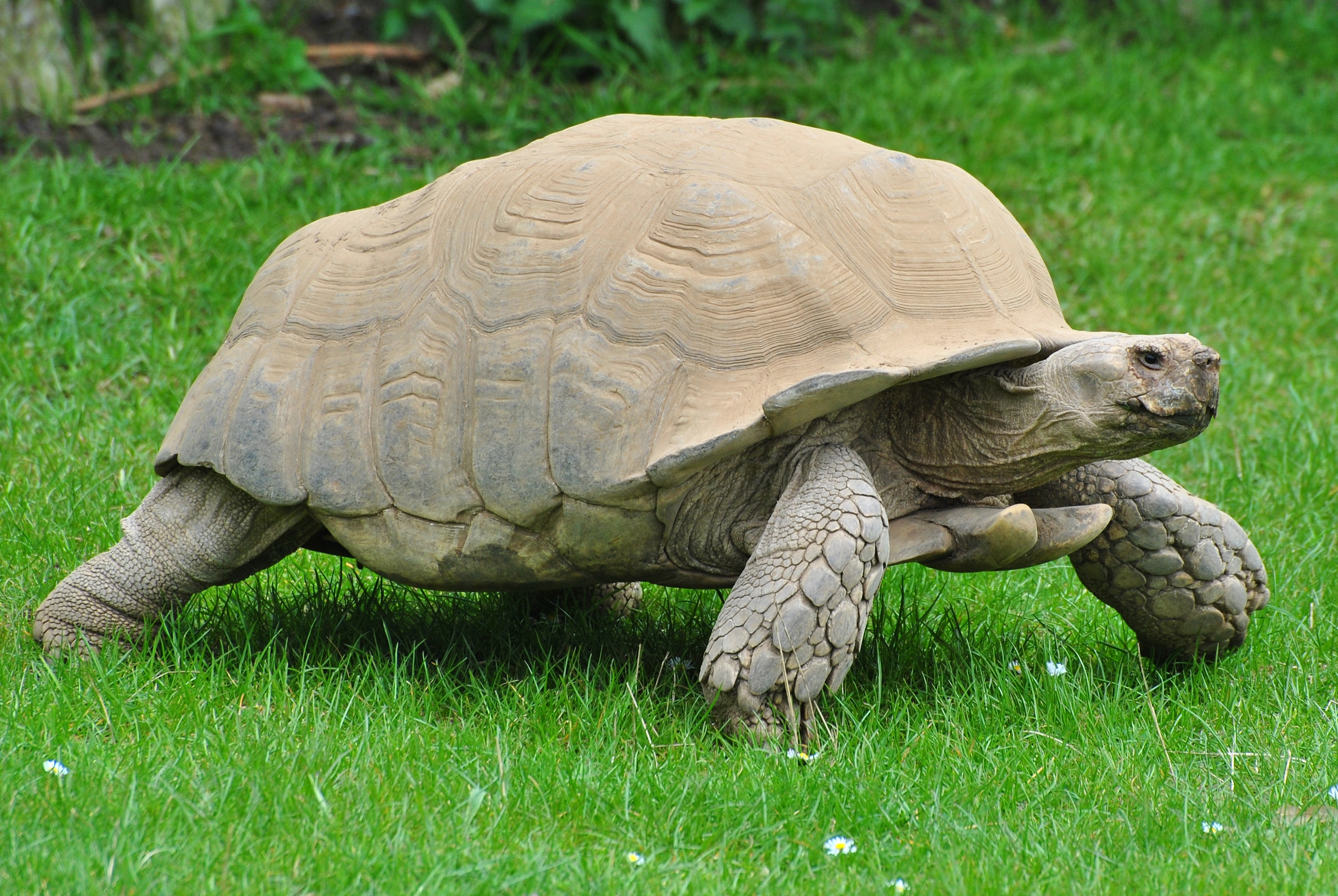 Linton Zoo, 24th April 2013